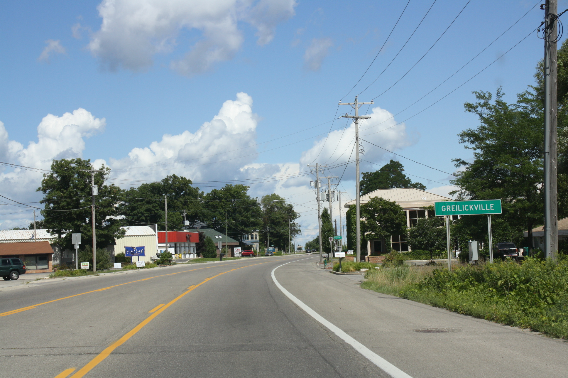 The sign for Greilickville, Michigan on M-22 (Michigan highway).